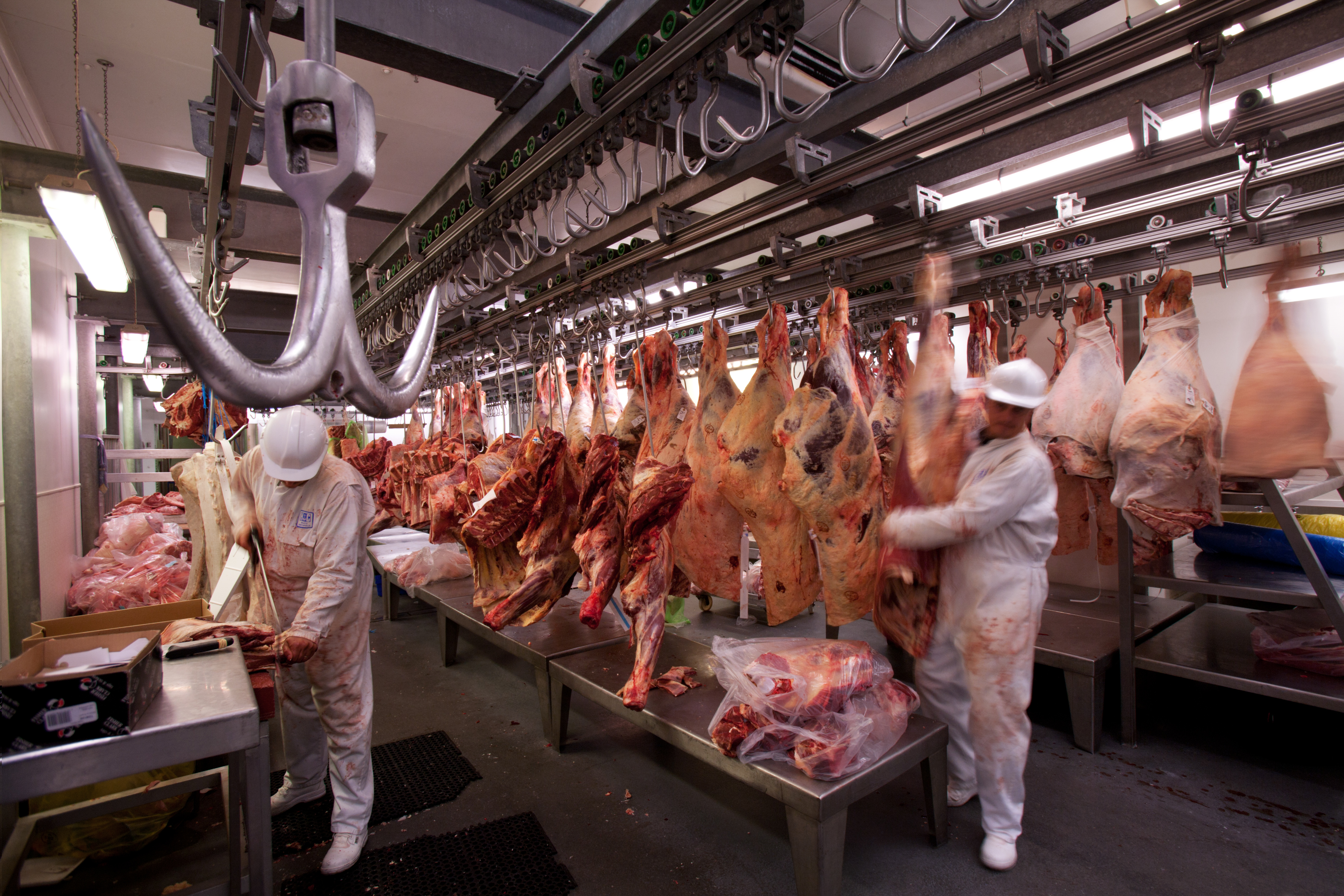 Smithfield Meat Market, London, UK